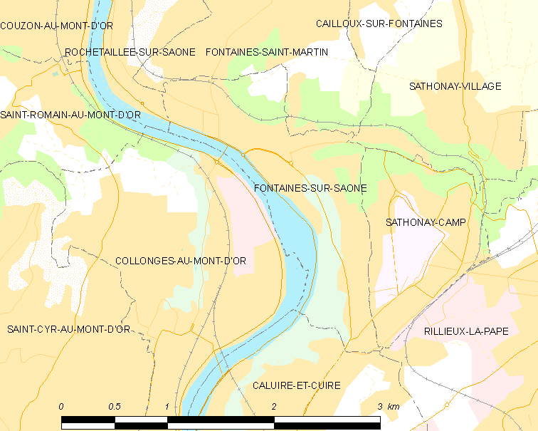 Map of French municipality